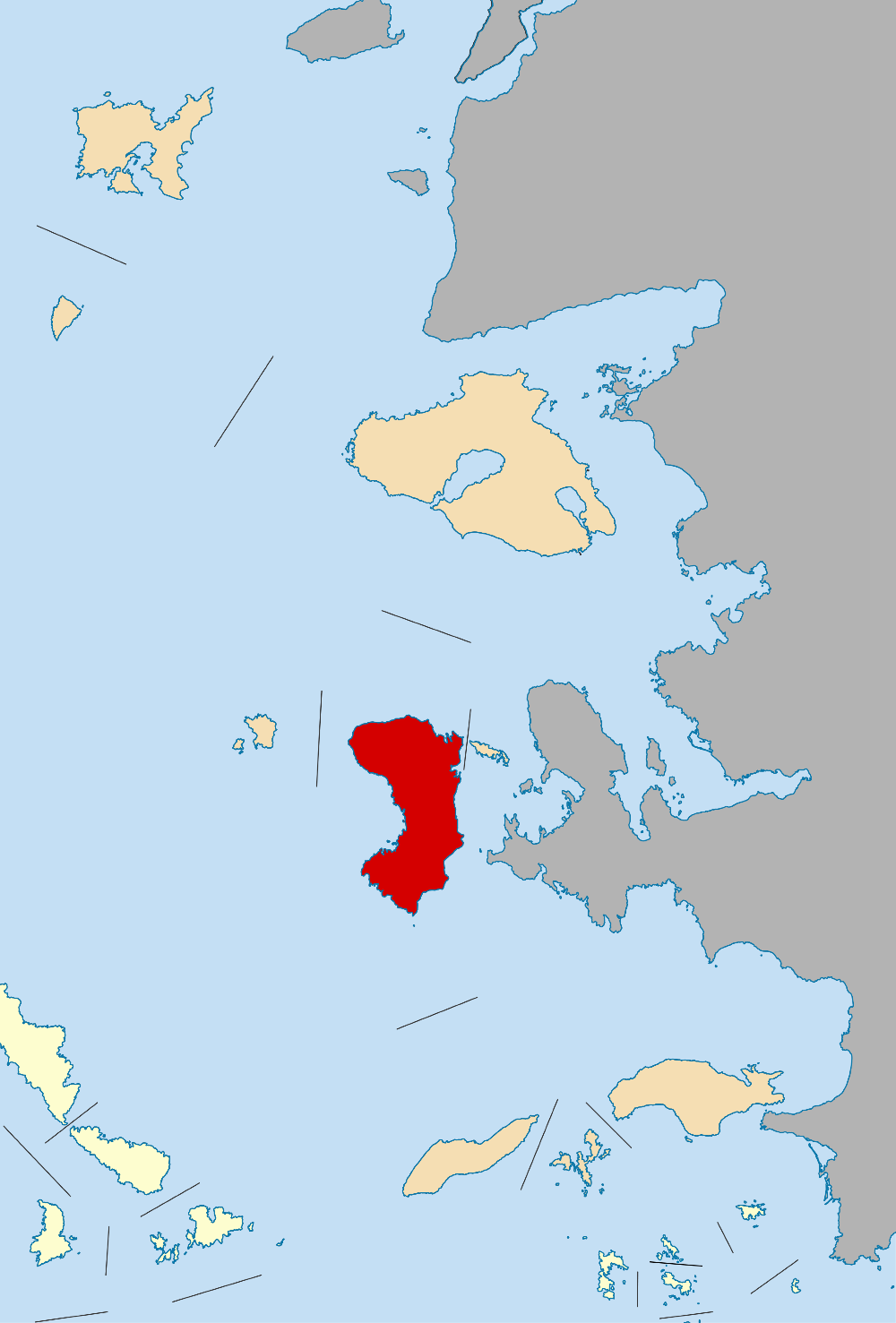 Locator map for Chios municipality in Greek region North Aegean (2011)